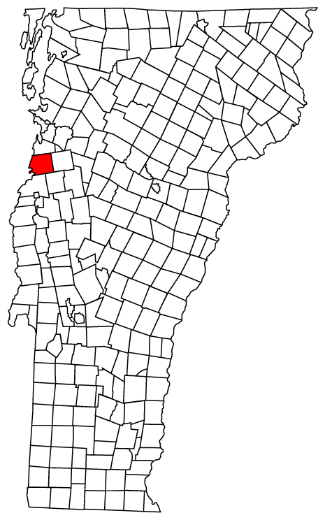 Description: Map of Vermont towns with Charlotte highlighted Source: Map created by Jared C. Benedict on 26 March 2004. Copyright: © Jared C. Benedict.